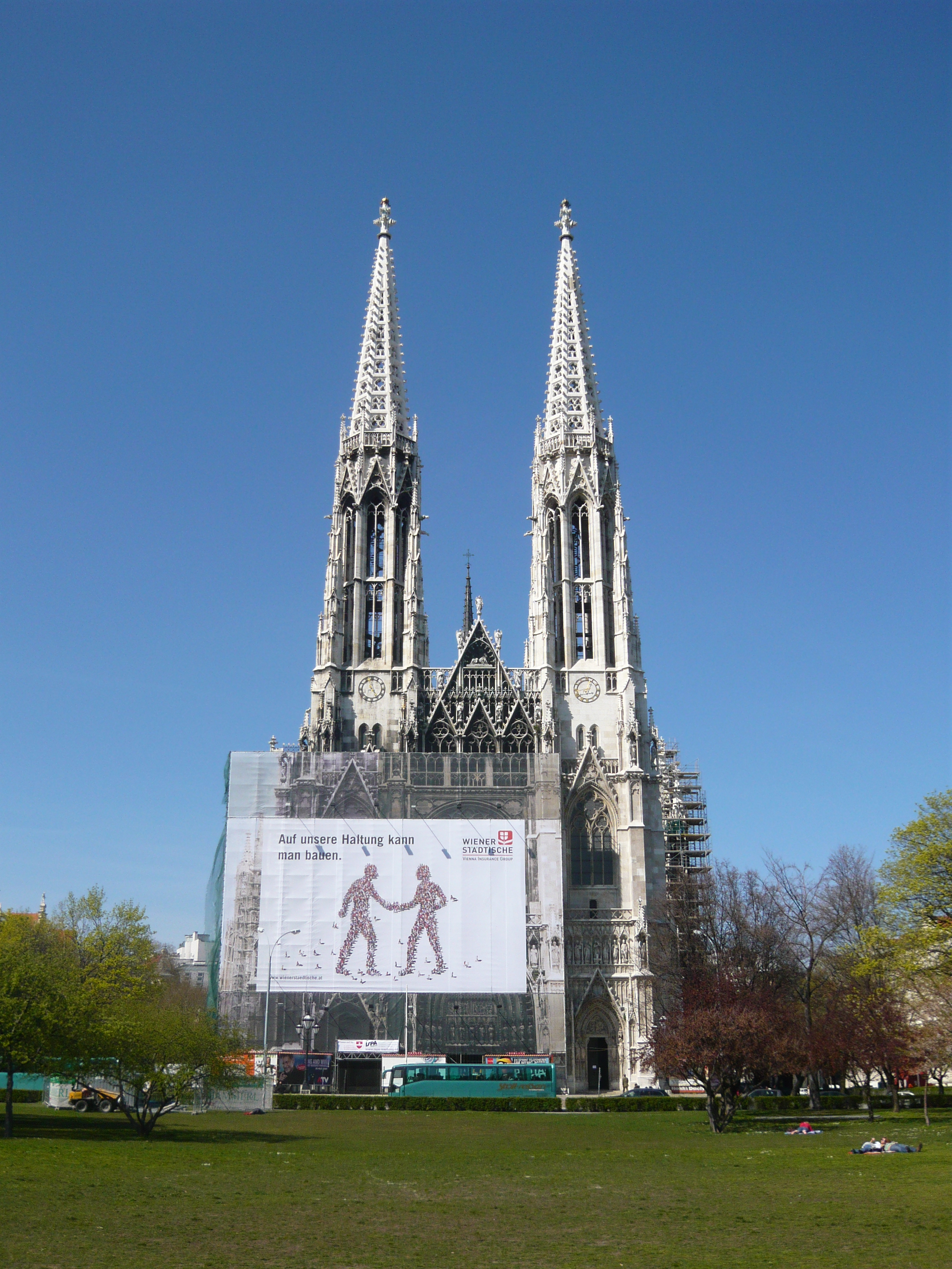 Votivkirche, Wien, Austria